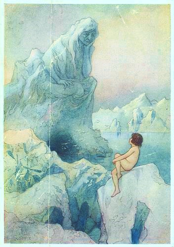 Illustration from "The Water-Babies - A Fairy Tale for a Land-Baby" by Charles Kingsley, illustrated by Warwick Goble